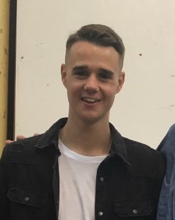 Aaron Reardon in Fortitude Valley, Brisbane in September 2019 (I believe in the early hours of 15 September but it may have been very late on the 14th).